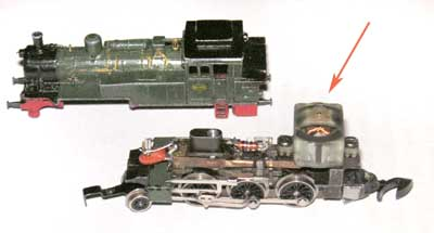 The tiny electric motor in a Z scale model locomotive. Photo: 2005 by J-E Nyström. I hereby place it in the Public Domain.